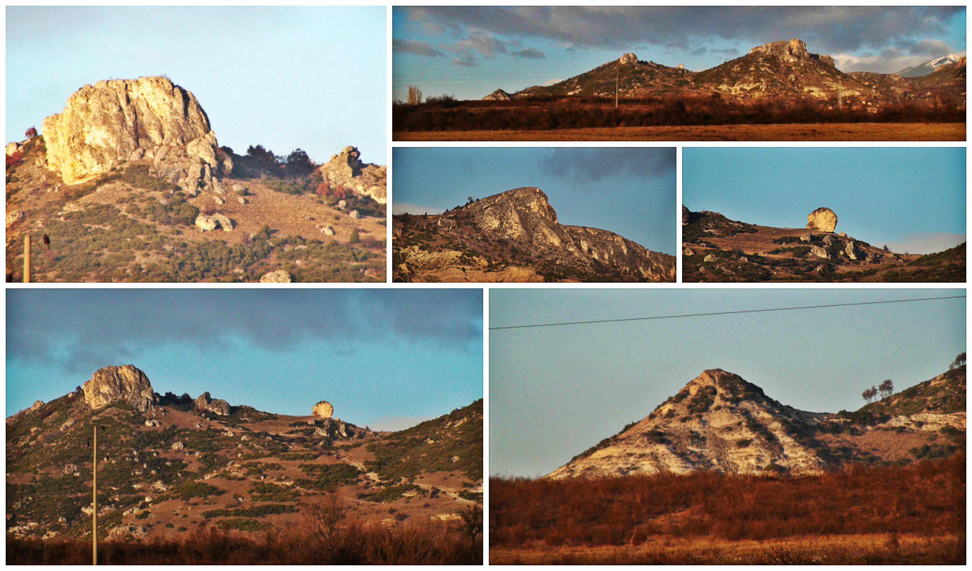 Ilindetsi_Bulgaria_1